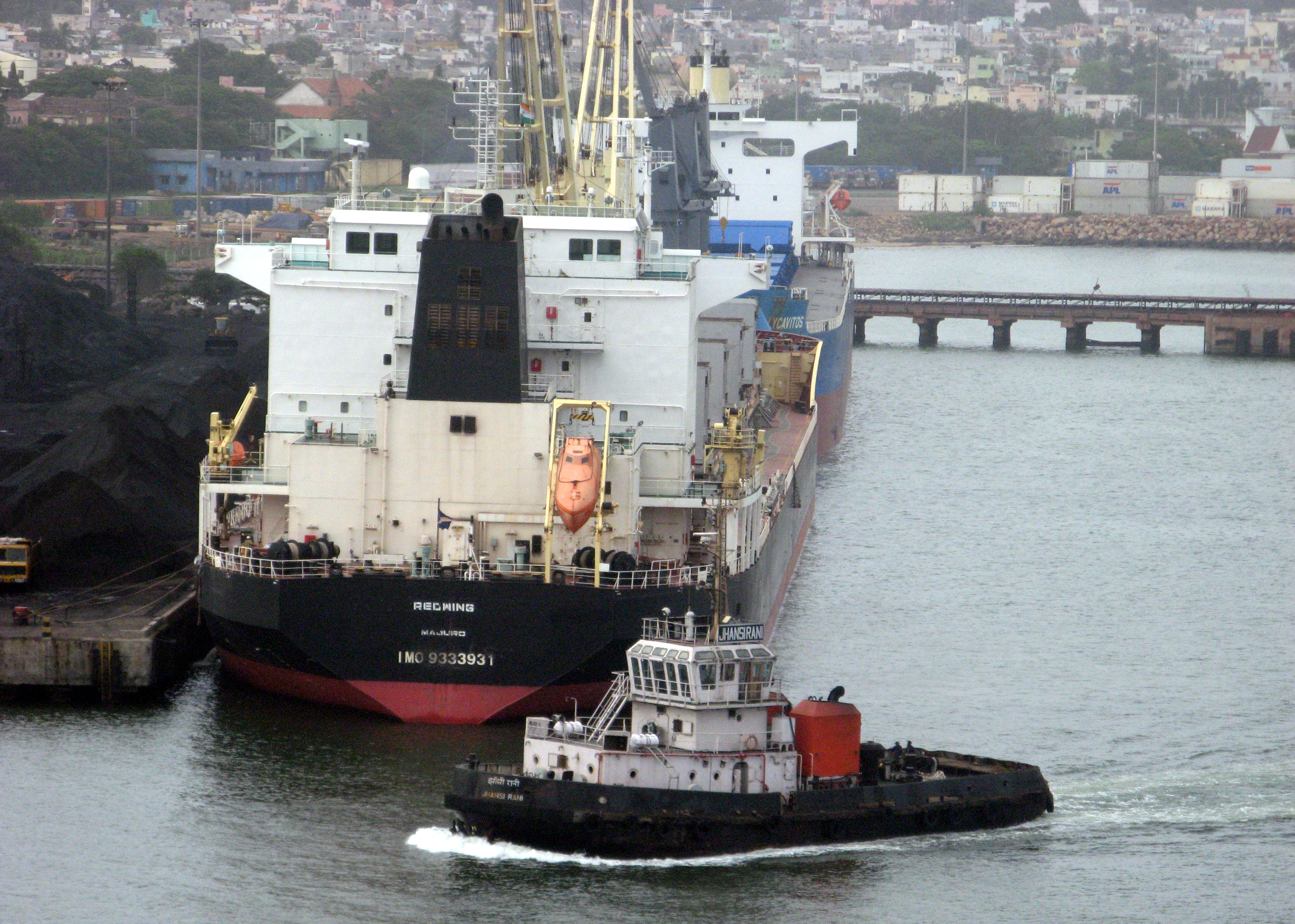 A ship at Vizag Sea Port